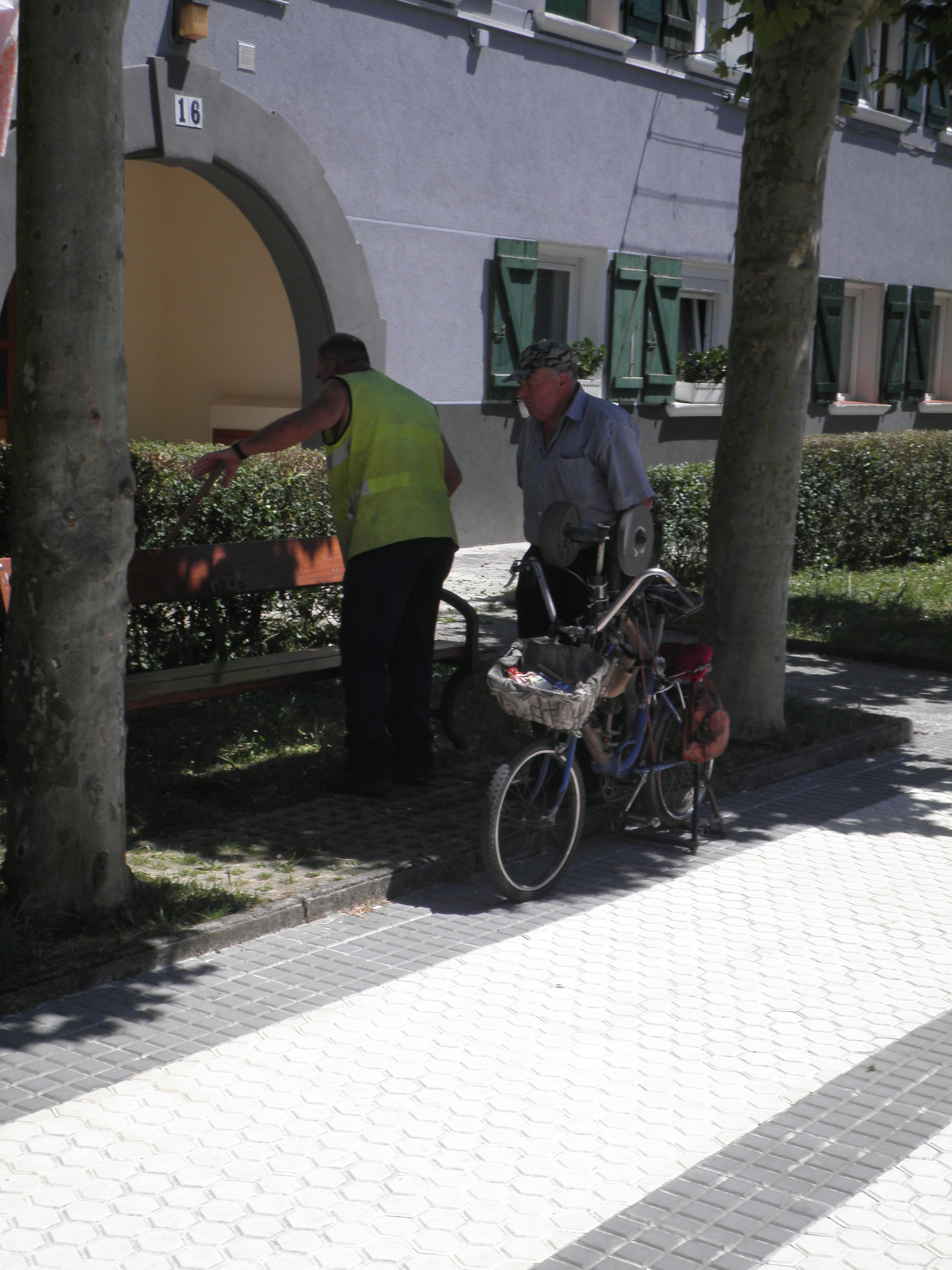 Cutler from Galicia in Donostia, Basque Country.